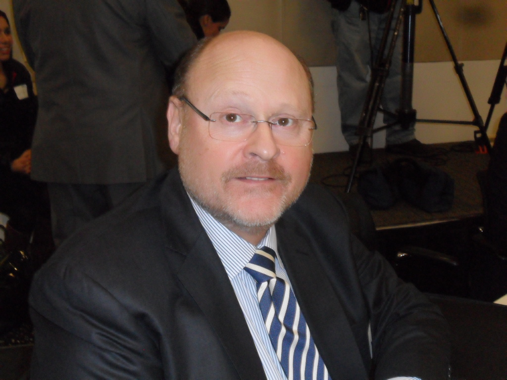 Joseph Lhota. Taken at New York Law School during a public event at which Preet Bhahara spoke.